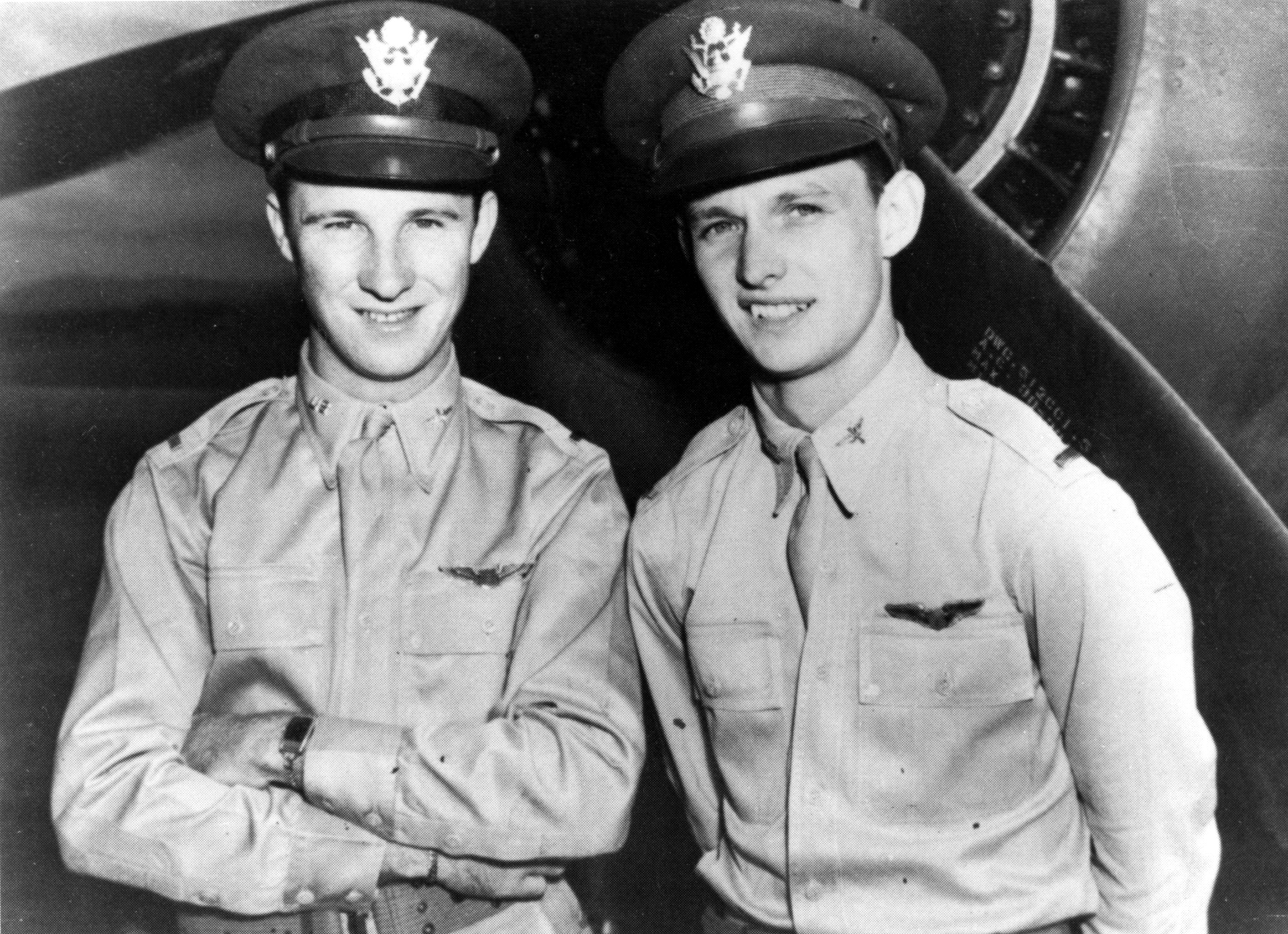 Kenneth M. Taylor and George Welch shortly after the Pearl Harbor attack